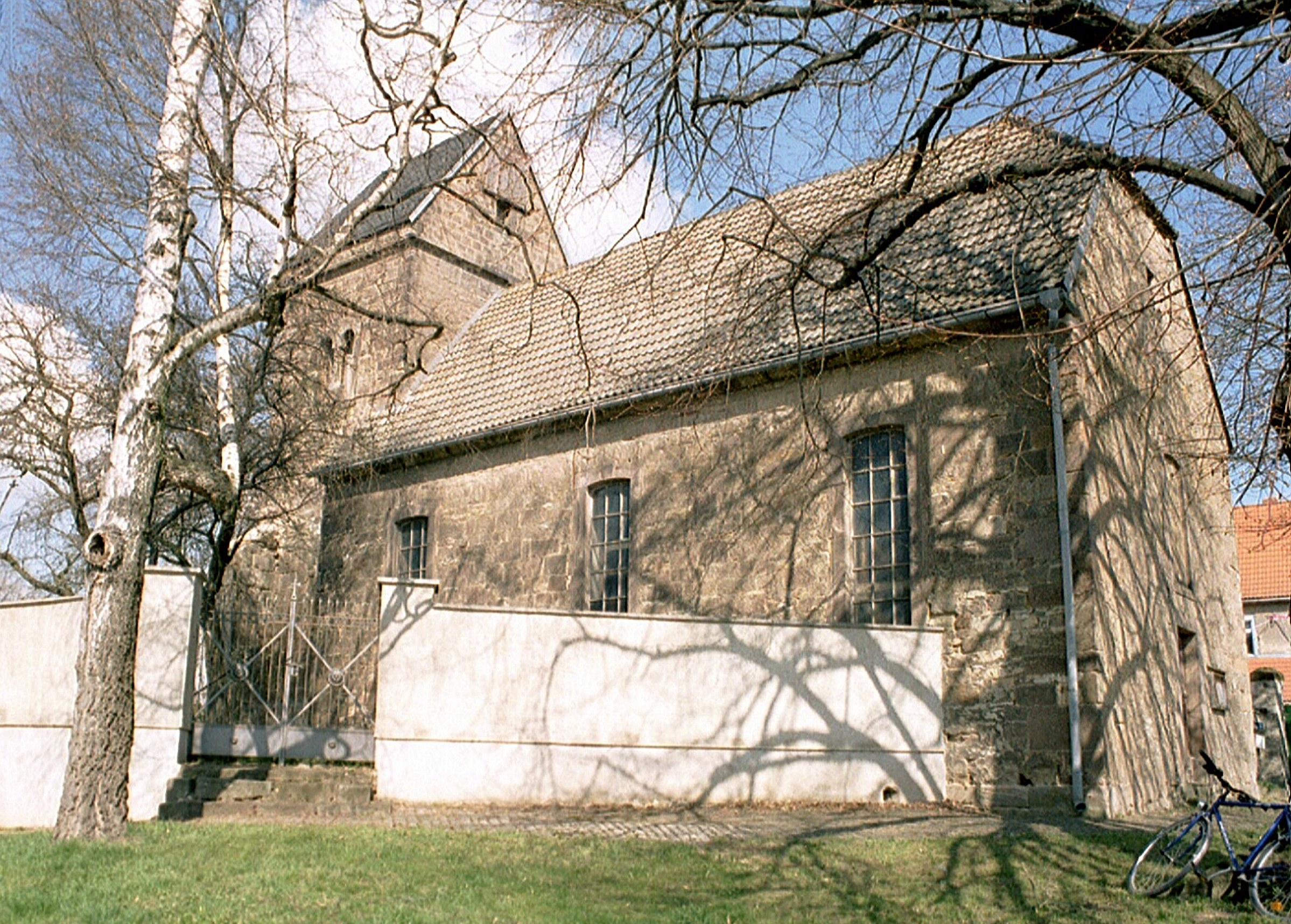 Jüdendorf (Steigra), the village church